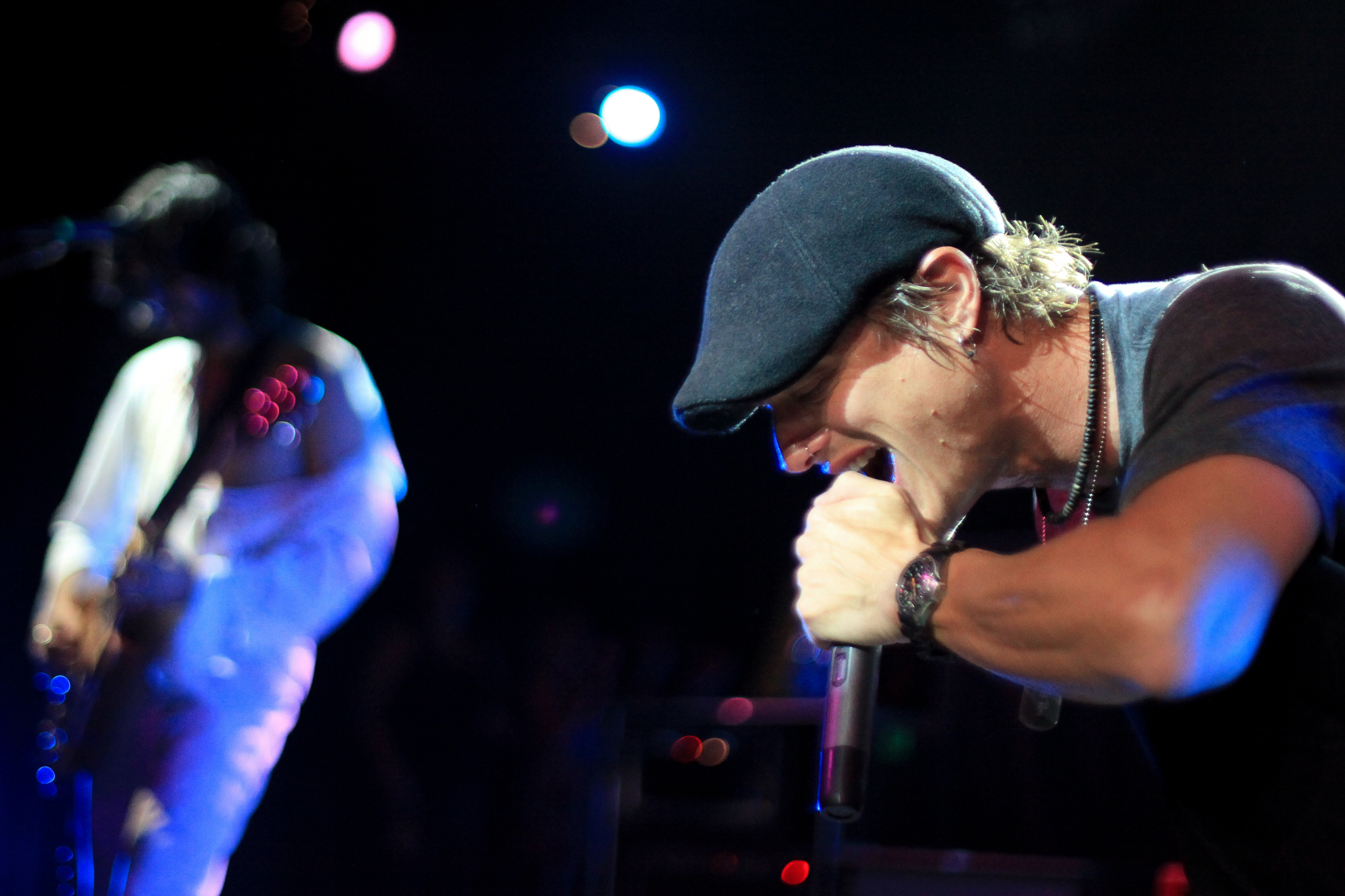 The rock band Fuel performed at the Morale, Welfare, Recreation (MWR) Rock The Fleet Party, here May 26, 2010. The kick-off party is the beginning of a hectic week for the more than 3,000 Marines, Sailors and Coast Guardsmen who will be participating in community outreach events and equipment demonstrations May 26 - June 2. This is the 26th year New York City has hosted the sea services for Fleet Week.